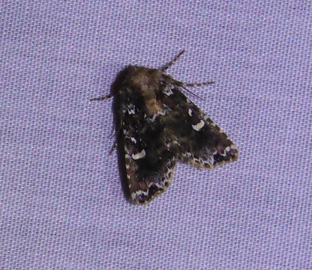 Leucosigma separata. Species of insect.